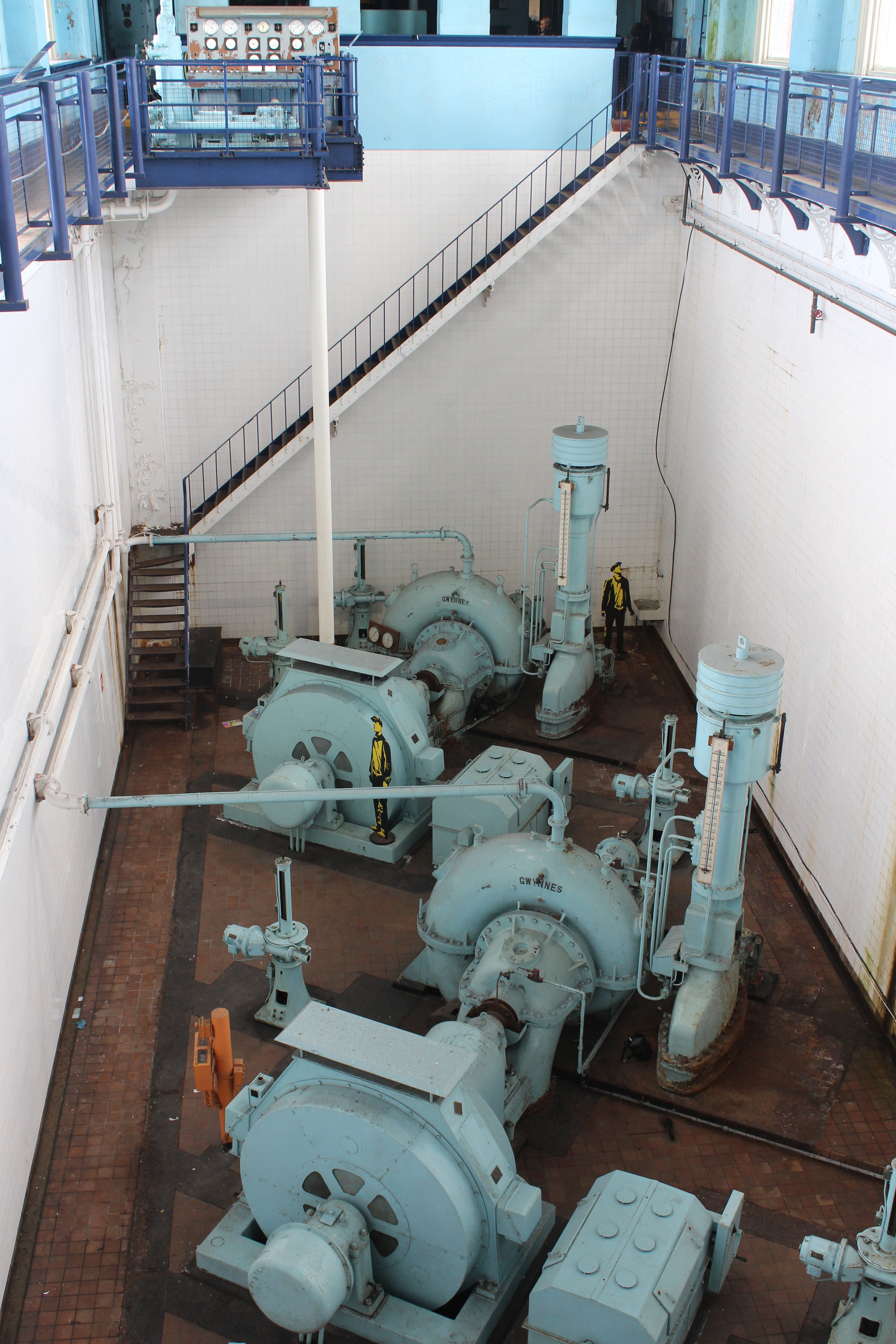 Pumps in the Belfast Pump Room which was used to fill or empty the Thompson dry dock (the dry dock where the RMS Titanic was built). The bottom of the pit which is 12 m below ground level is level with the bottom of the dry dock.It could empty or fill the dry dock (23 million gallons or 103,500 m3) in 100 minutes. The pumps, built in 1911 were originally stream driven, but were converted to diesel power in 1950. There were three pumps, two of which are visible in the image. Thew control column of the third pump is just visible in the botton right-hand corner. They were last operated in 2001.[1] ↑ Titanic education pack